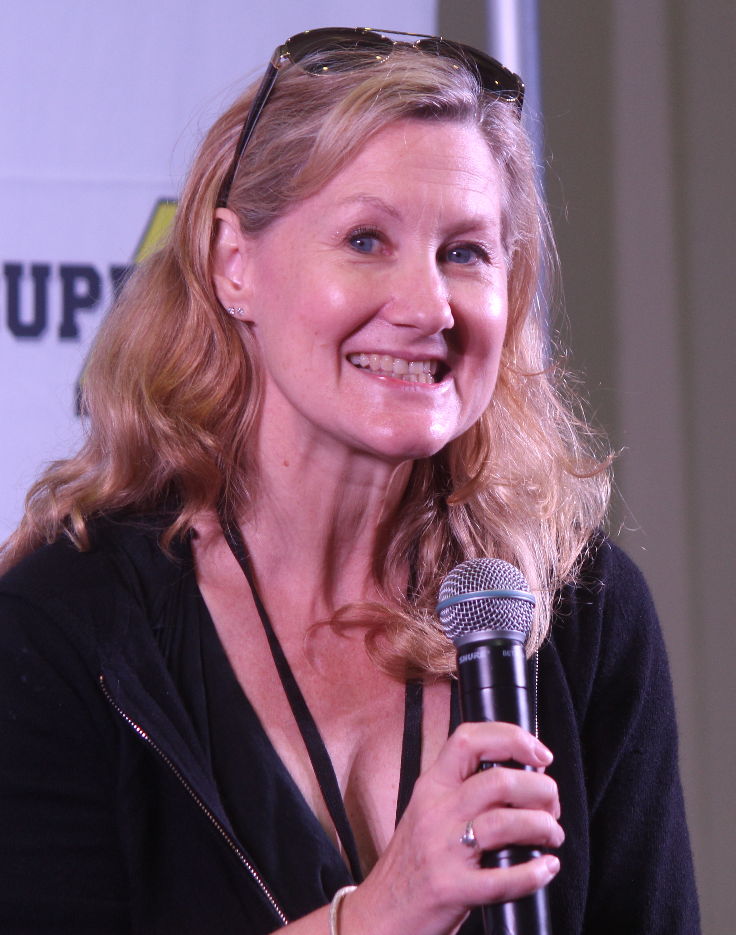 Veronica Taylor at the Florida SuperCon in 2016